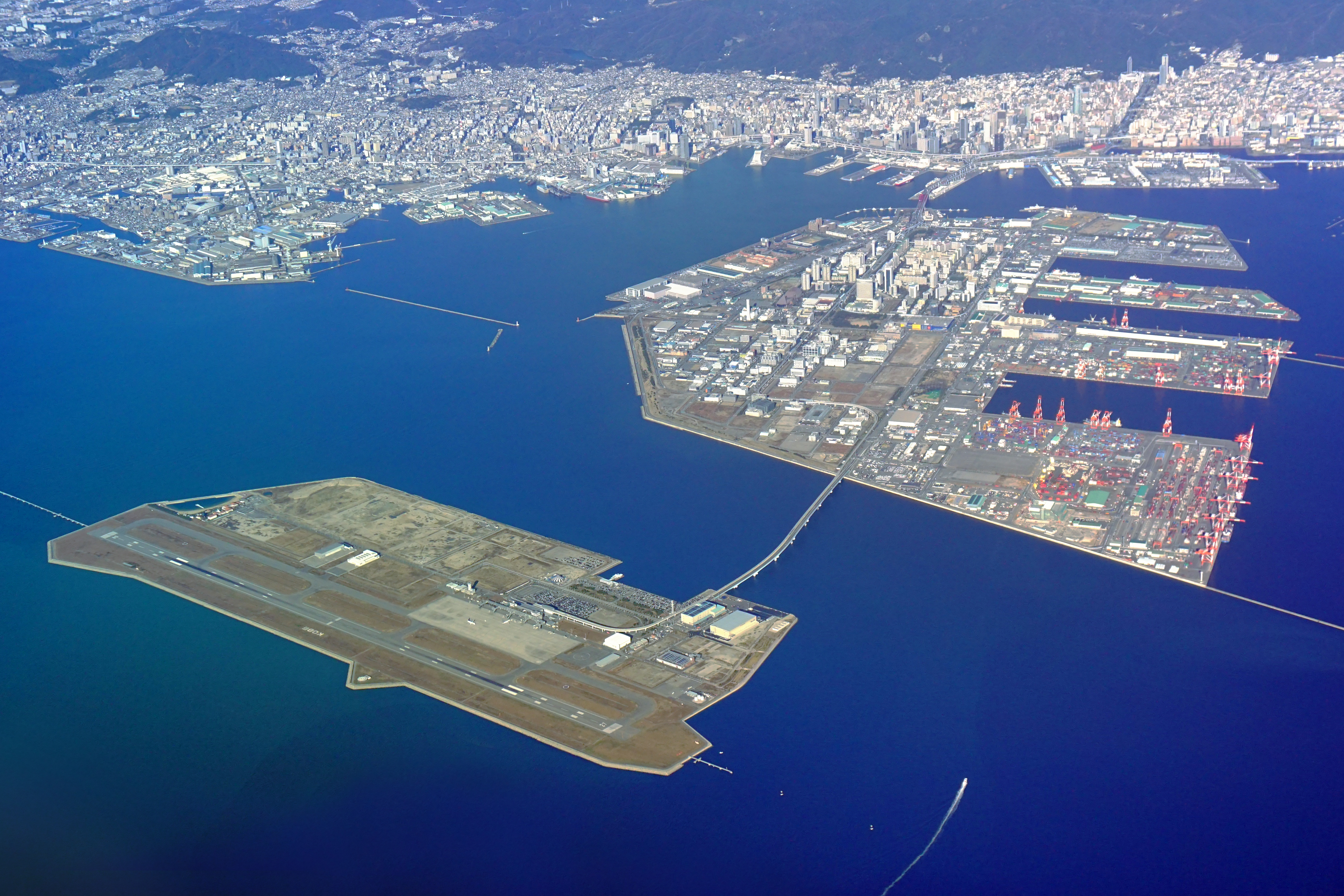 Port of Kobe from the sky in Kobe City, Hyogo prefecture, Japan